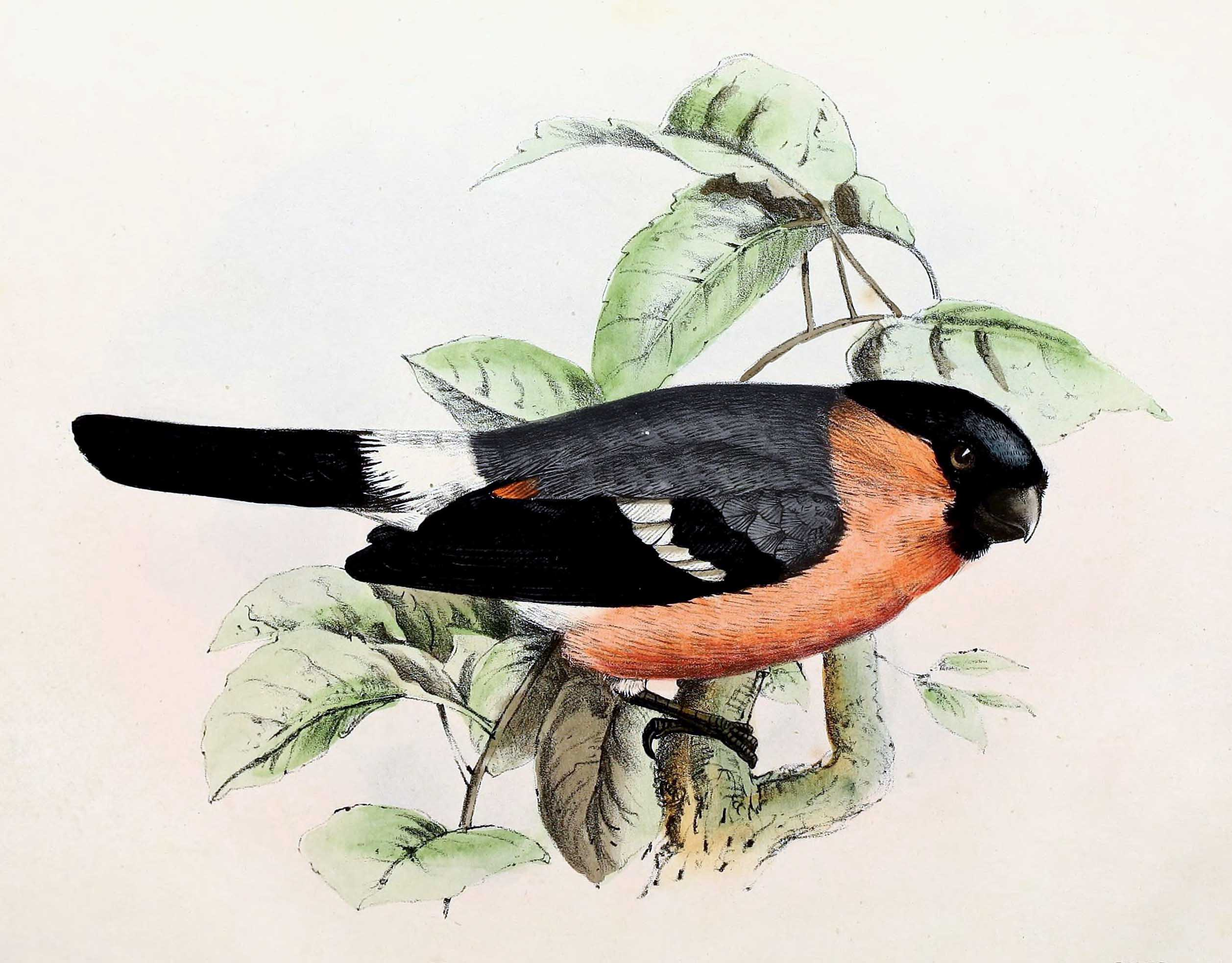 « Pyrrhula vulgaris » = Pyrrhula pyrrhula (Eurasian bullfinch)